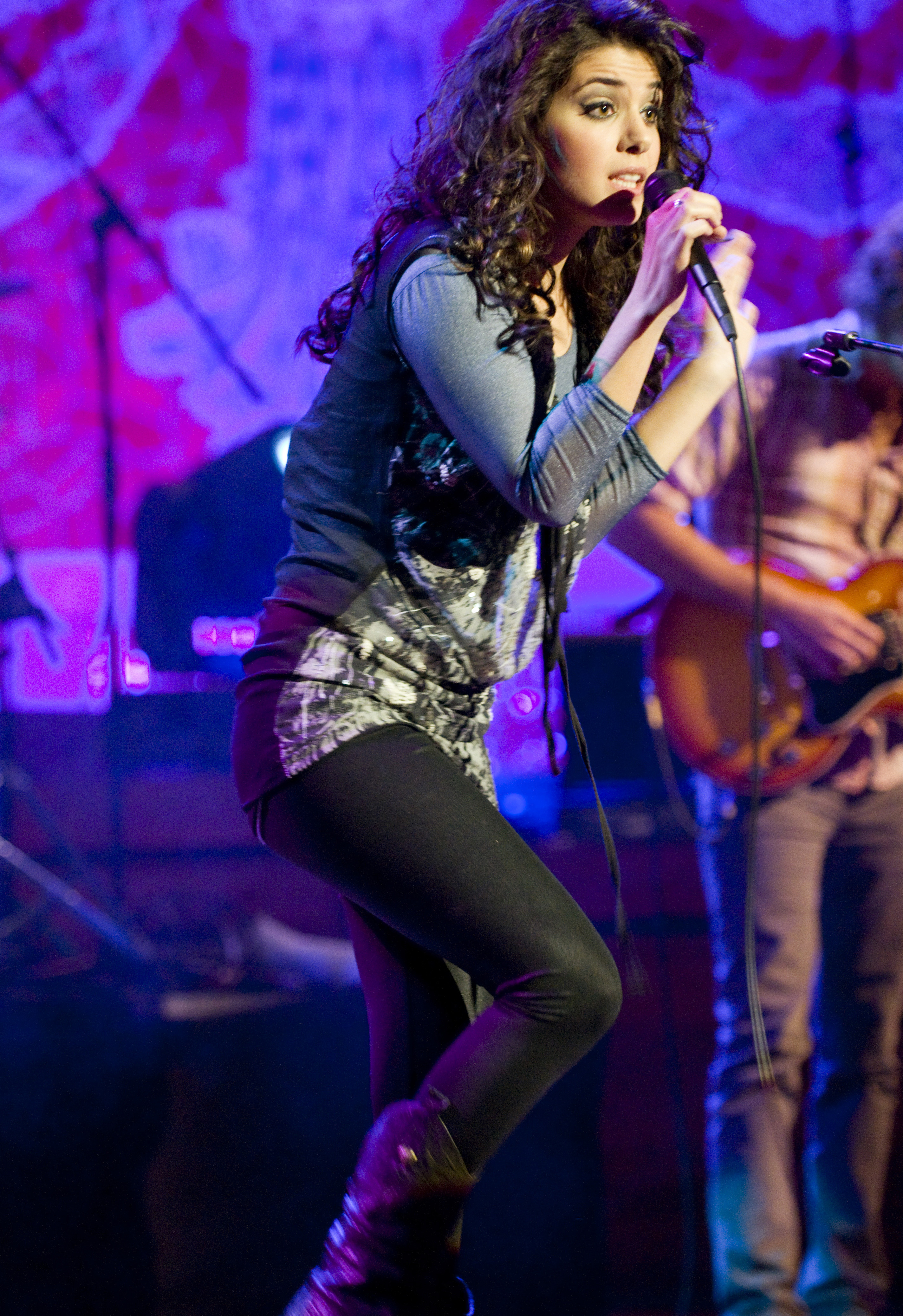 Katie Melua. Performing a live concert in the Palau de la Musica, Barcelona, November 2008.